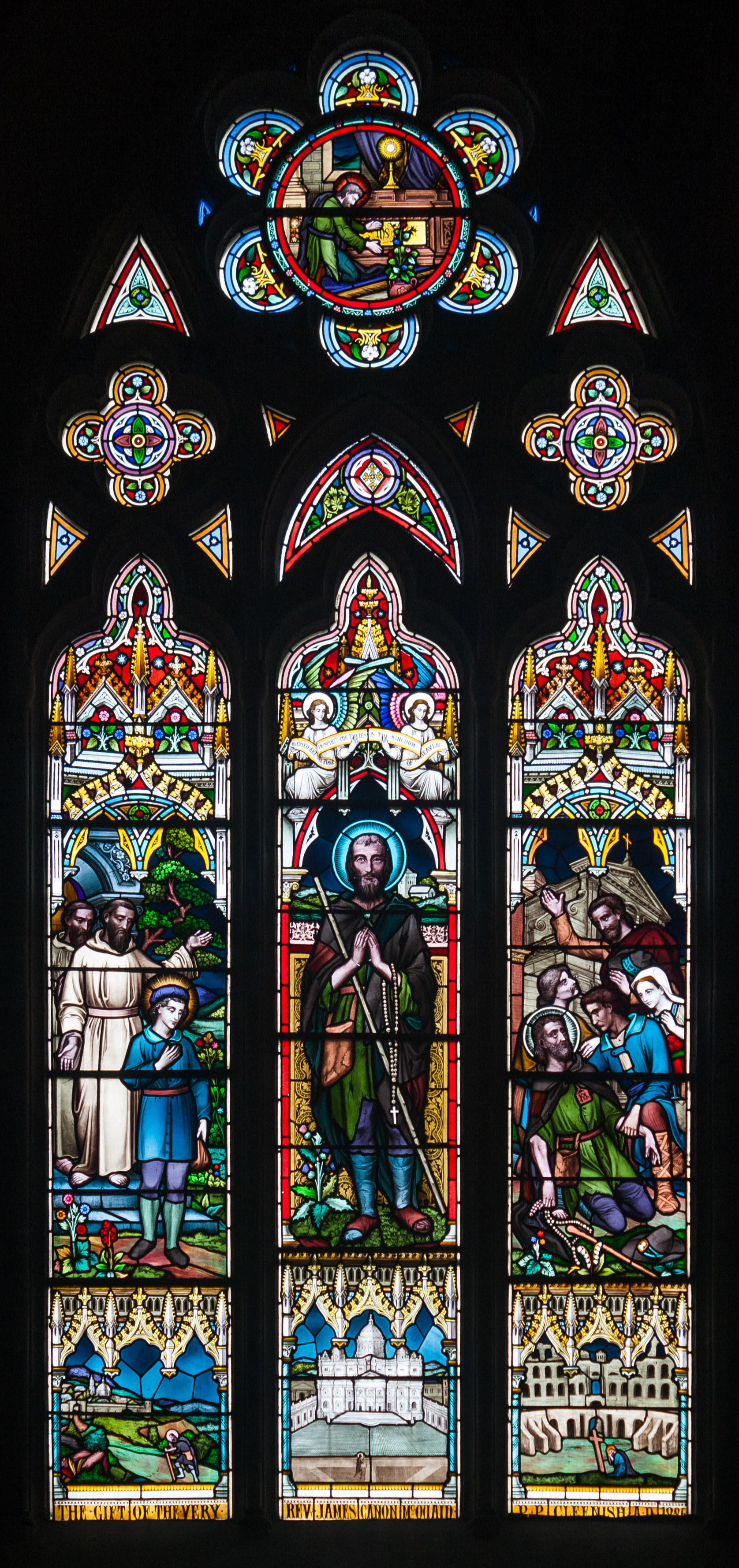 Stained glass window in the east wall of the Chapel of Reconciliation (south-most of all side chapels), depicting Saint Benedict Joseph Labre and scenes from his life. Created by Earley and Powell. The line at the bottom reads as follows: “The gift of the Very Rev. James Canon McQuaid P.P. Cleenish A.D. 1886.”